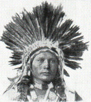 Ute American Indian